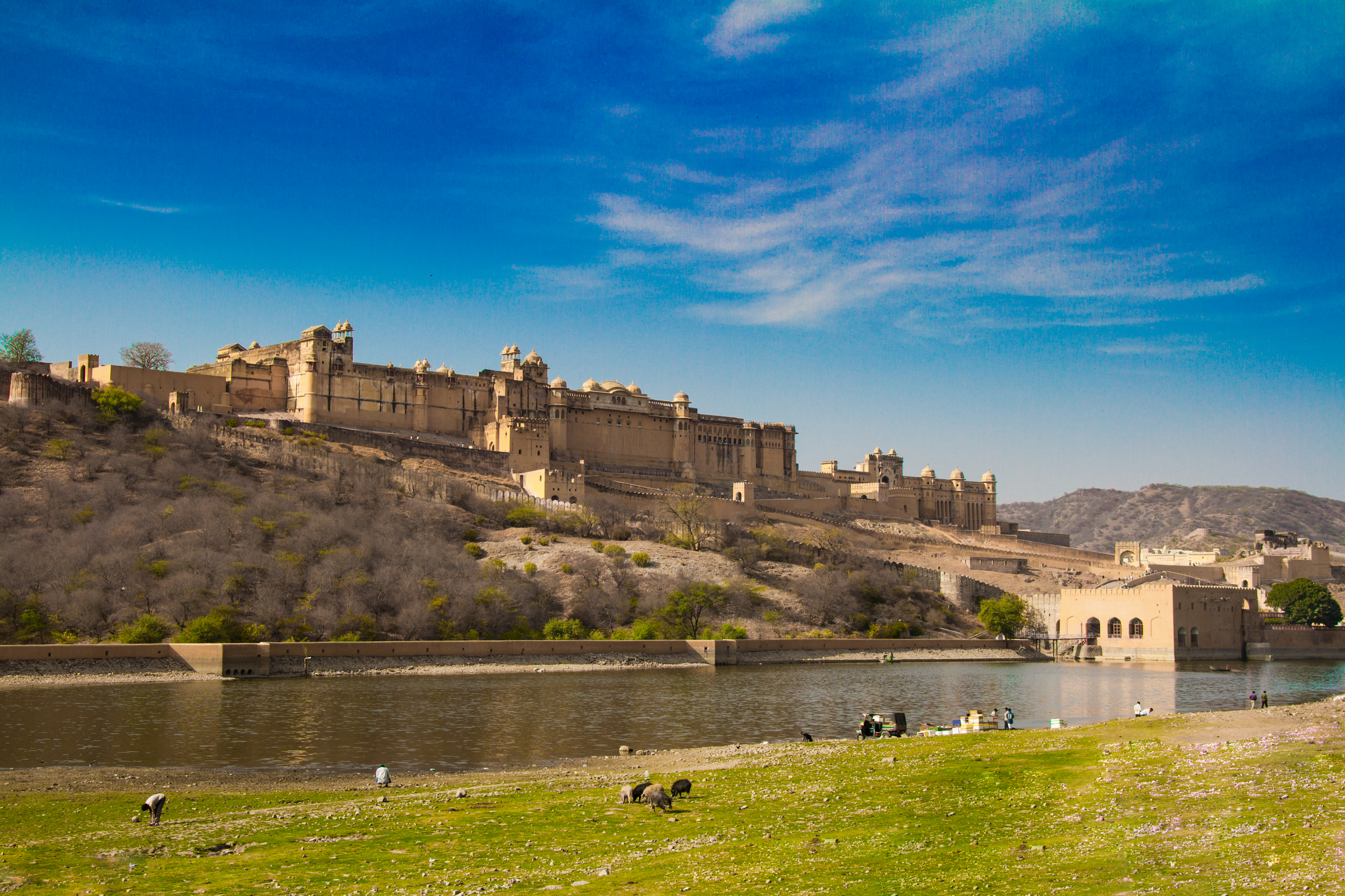 Amber Palace on Hill, Amber